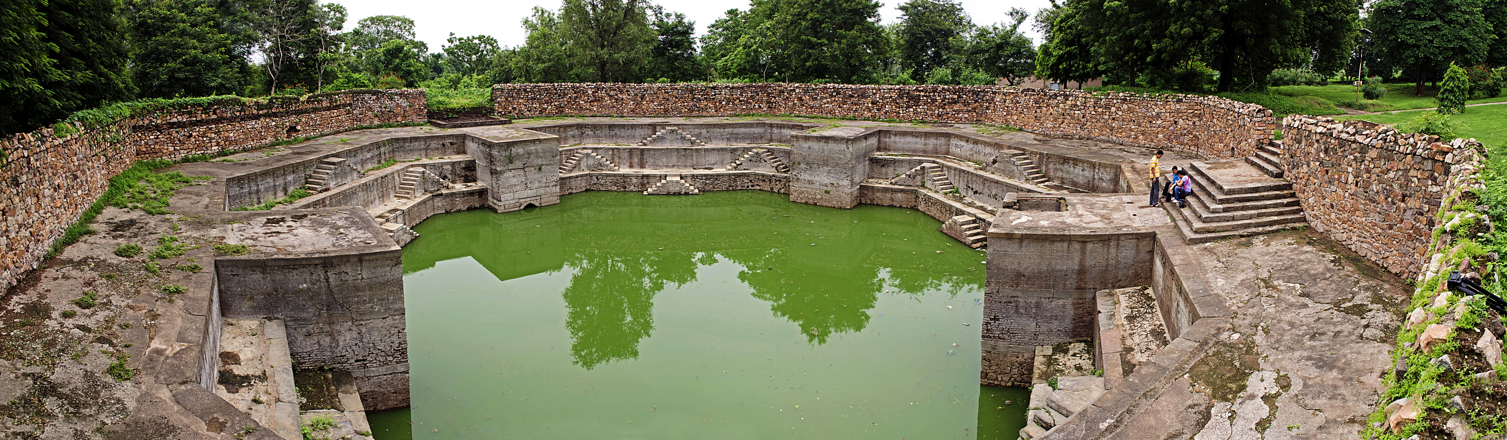 Panorama of Stepwell at Jama Masjid, Champaner